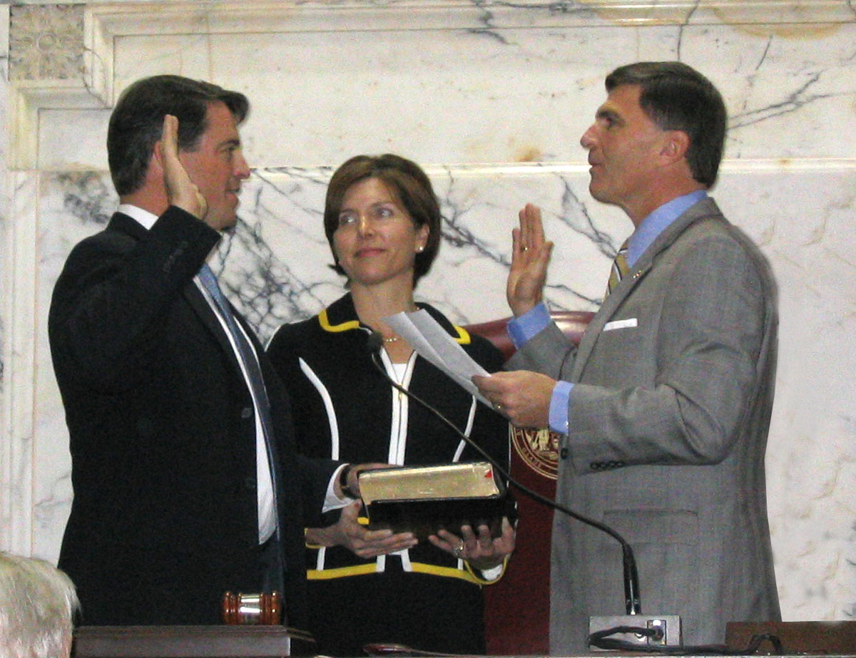 Attorney General Doug Gansler, and his wife Laura Leedy Gansler at his swearing 2007 swearing in, officiated by then Governor Robert Ehrlich.